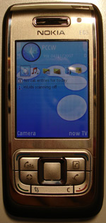 Hong Kong version of the Nokia E65.